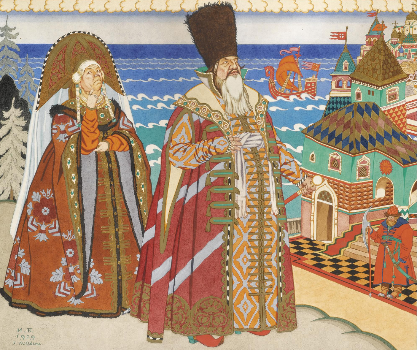 Ivan Yakovlevich Bilibin, "Tsar Saltan and Babarikha" Ivan Yakovlevich Bilibin 1876-1942 TSAR SALTAN AND BABARIKHA signed in Latin, initialled in Cyrillic and dated 1929 l.l. watercolour and gouache over pencil on paper 45.5 by 53.8cm., 18 by 21 1/4 in.\ Bilibin had moved to France in 1925 and stayed there until 1936. The present work, executed at the height of the artist's powers in 1929, is a jewel-like composition that draws on the influences of Russian folk art, icon-painting and mediaeval manuscript illumination. Whilst working on the series of small 'panels' from Pushkin's Tale of Tsar Saltan to which the offered lot belongs, Bilibin had also been designing the stage-sets and costumes for Rimsky-Korsakov's opera of the same name, which had its premiere as part of the Russian opera season in Paris at the Théâtre des Champs-Elysées. Indeed, Bilibin incorporated certain elements from the decorative panels into the set designs.